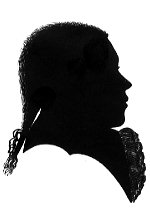 Silhouette of Ludwig van Beethoven (1770-1827) at the age of 16